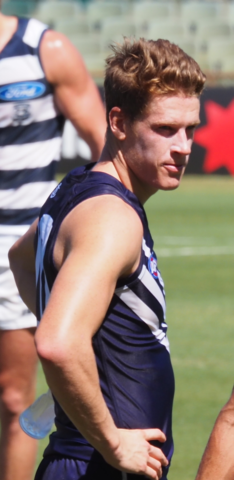 Matt Taberner playing for the Fremantle Football Club in March 2016